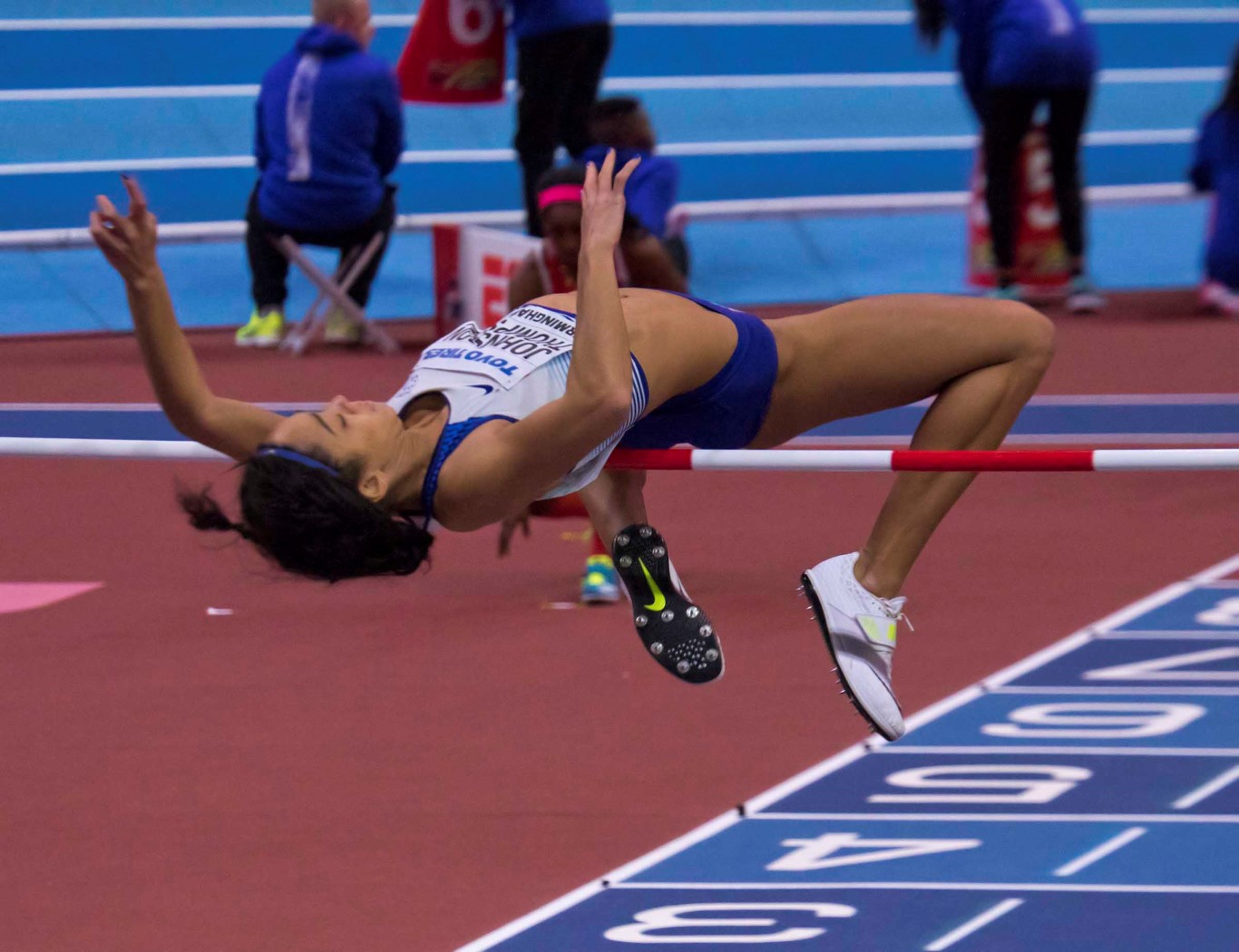 2018 IAAF World Indoor Championships in Athletics